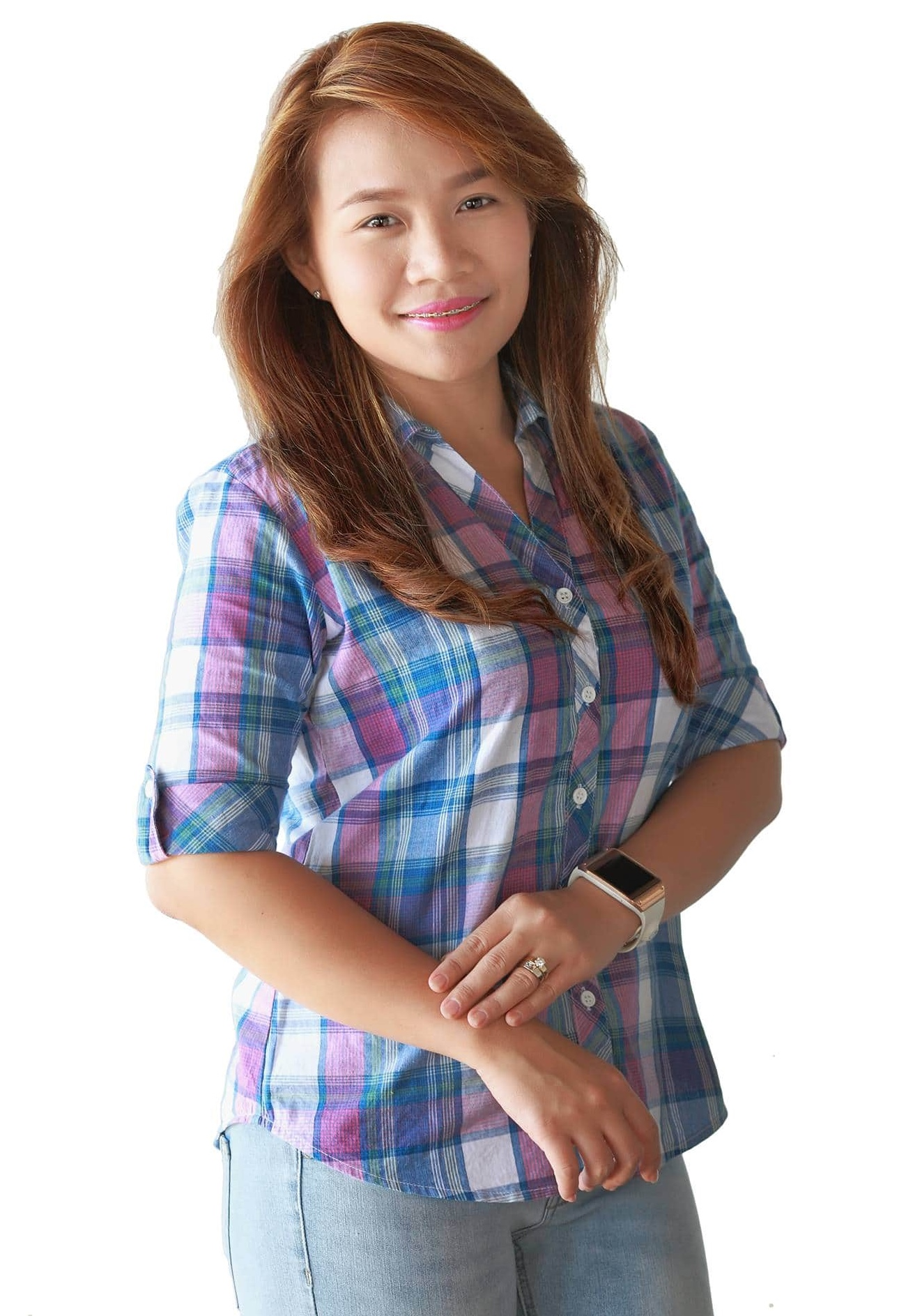 Catbalogan City Mayor Stephany Uy-Tan